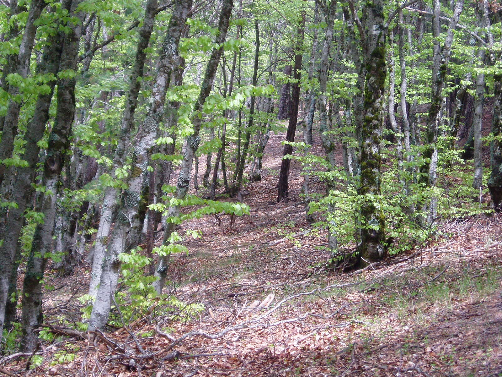 The roe-deer (Capreolus capreolus), is an abundant species in the Hayedo de Tejera Negra.